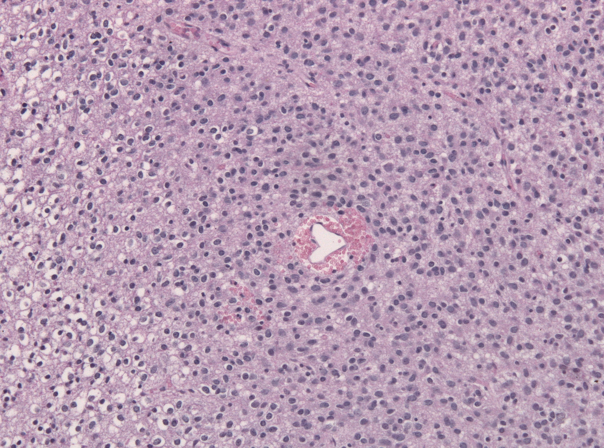 Biopsy specimen of a Oligoastrocytoma (HE stain)